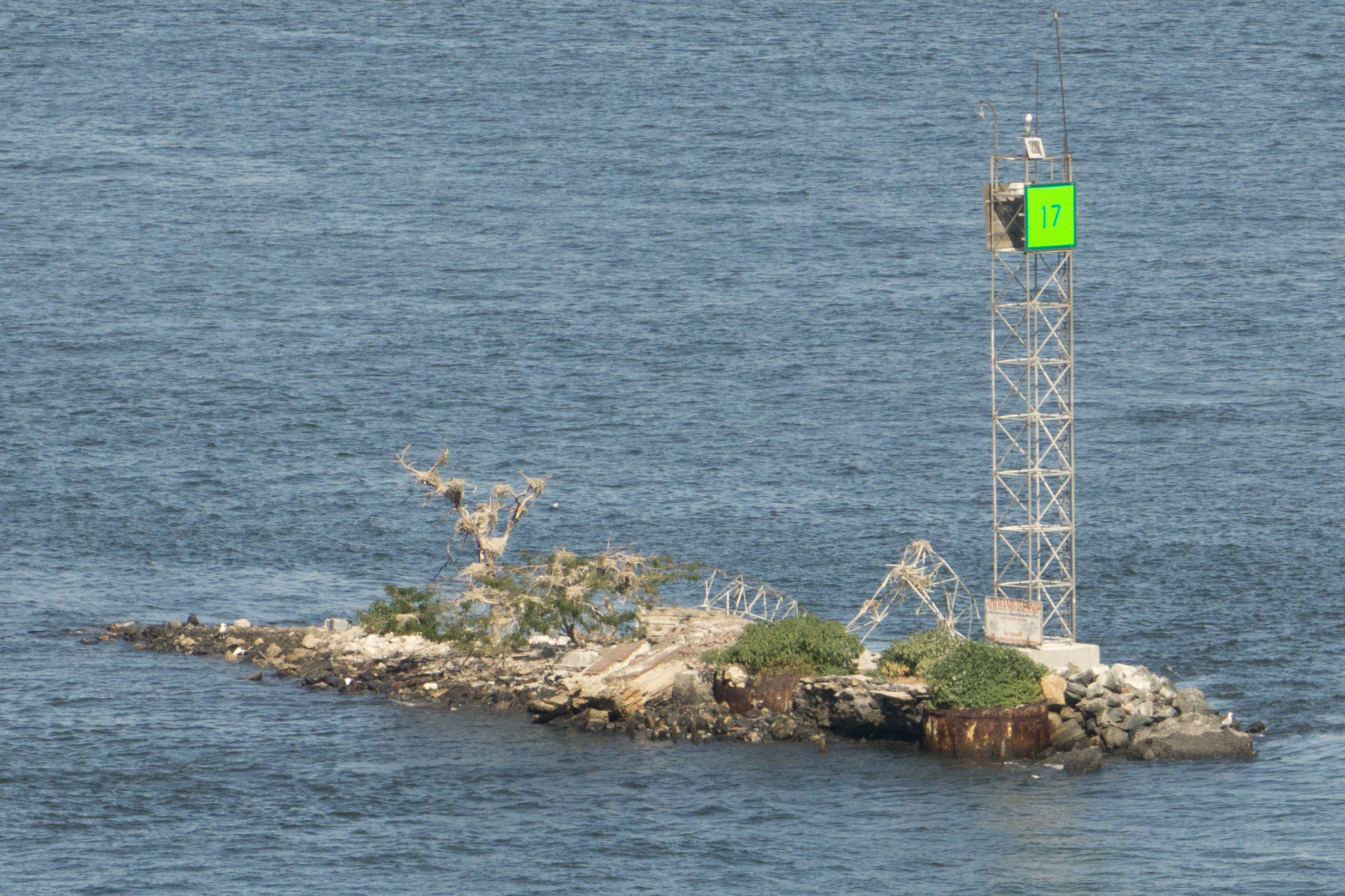 U Thant Island, New York from 1st Avenue looking east over island